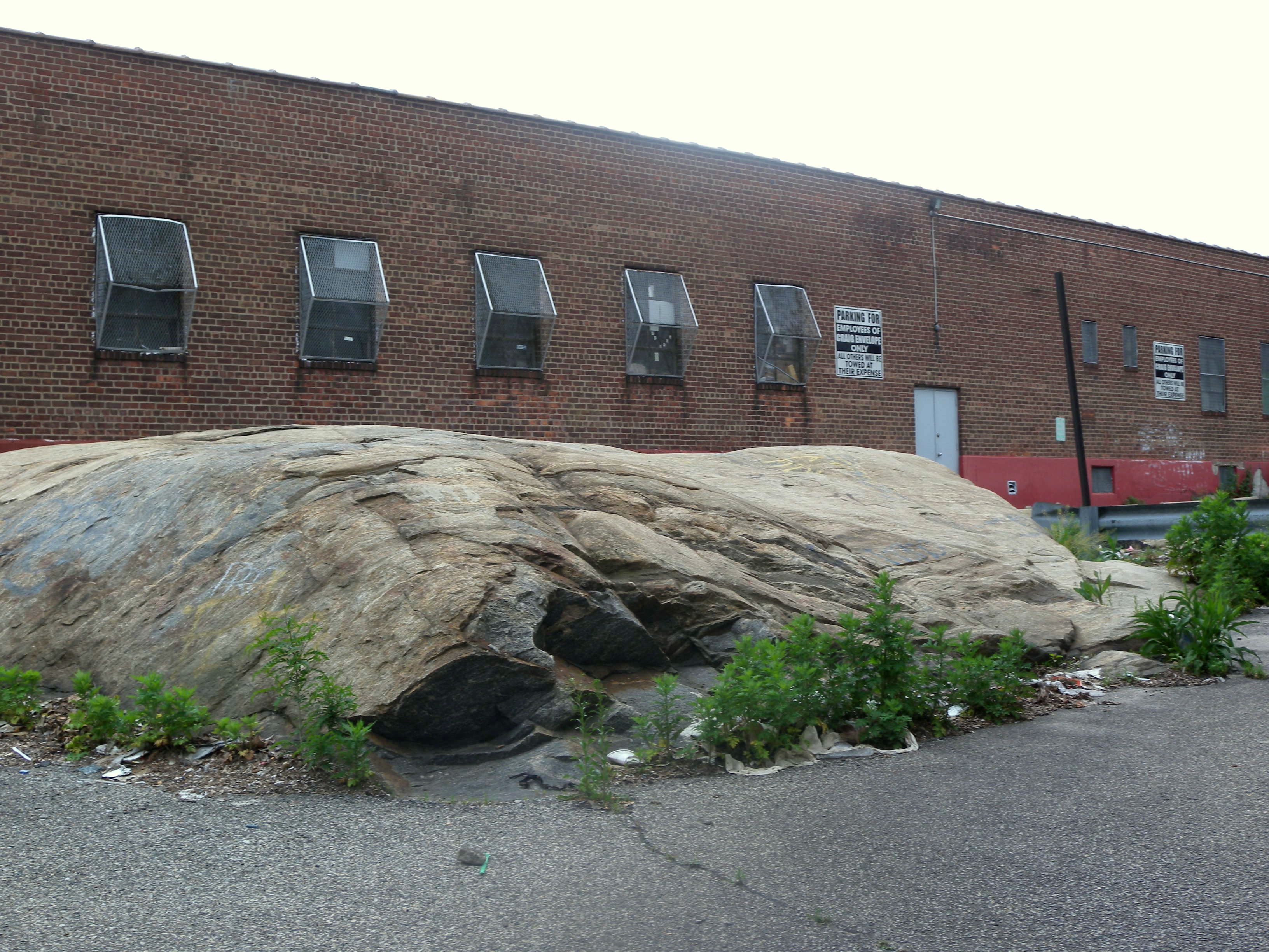 Looking south from 43d Road at 12th Street boulder on a cloudy day.